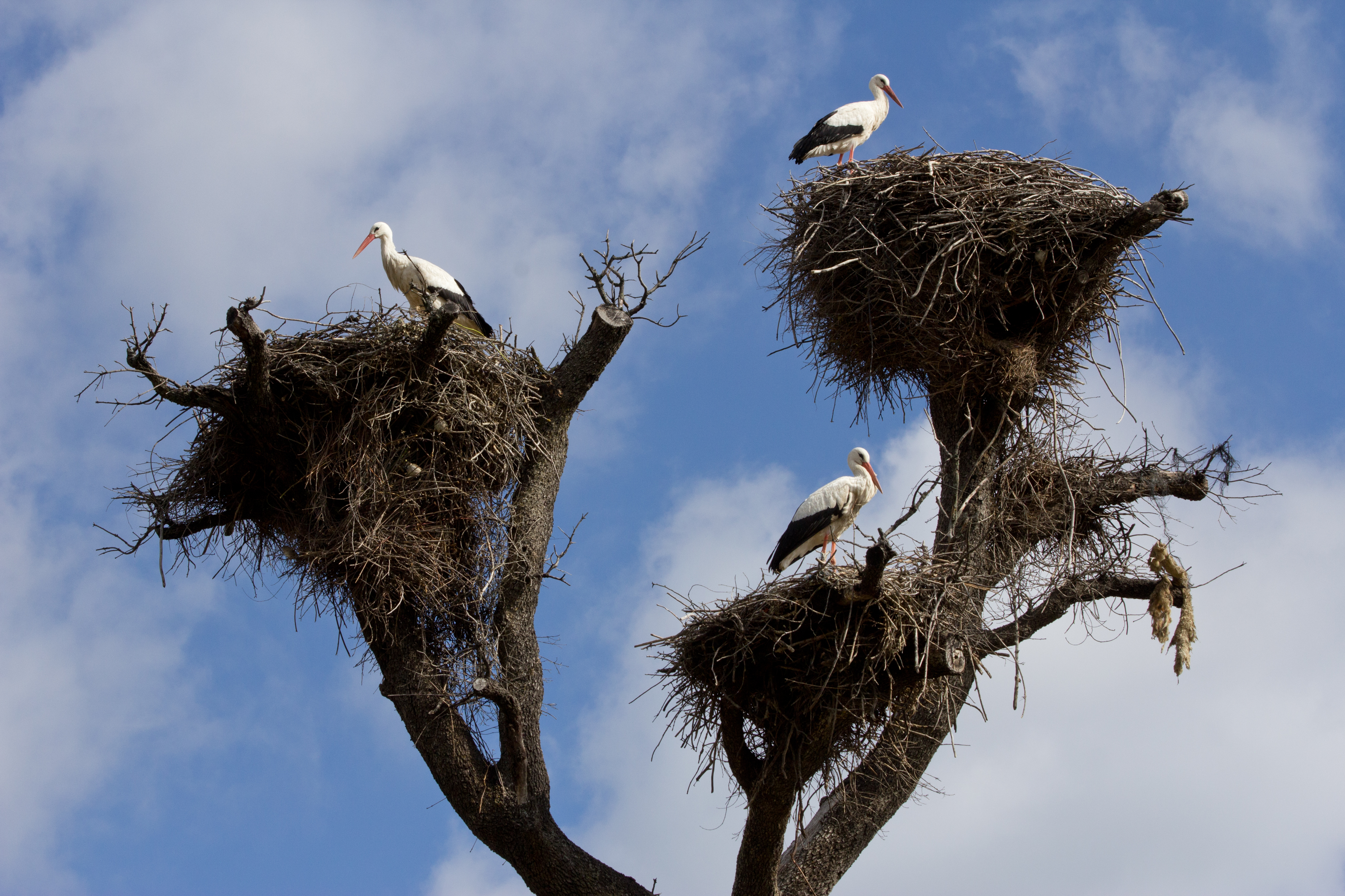 White Storks (Ciconia ciconia) in Madrid, Spain.